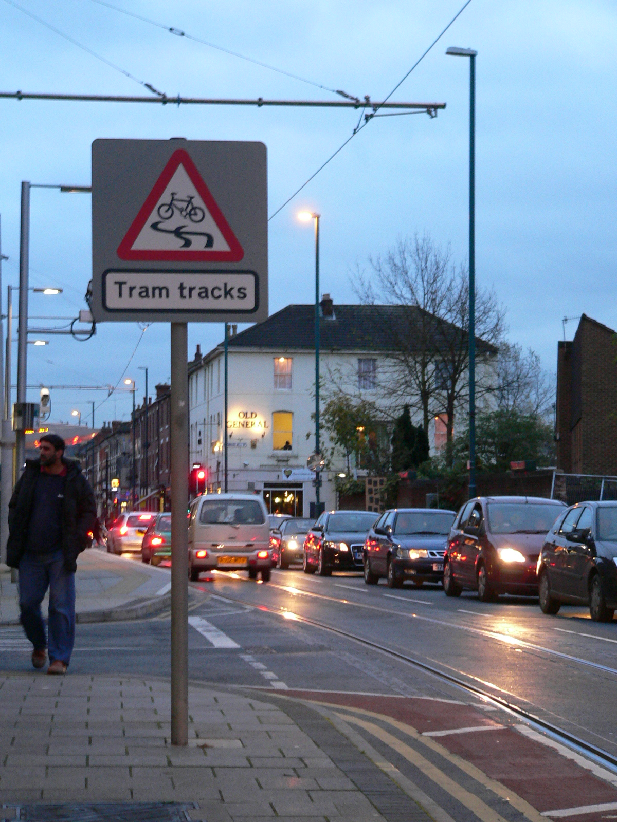 A road sign warning cyclists that the tram tracks in the road ahead might be slippy. This photograph is taken on Radford Road in Nottingham, the stop with that name is immediately beyond the side road entering from the left. The double-height curb and boxy station sign are visible to the right and above the man on the left of the picture.